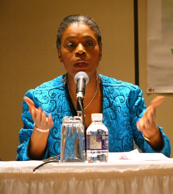 Professor Anita Allen at the 2007 Computers, Freedom and Privacy Conference in Montreal, Canada.